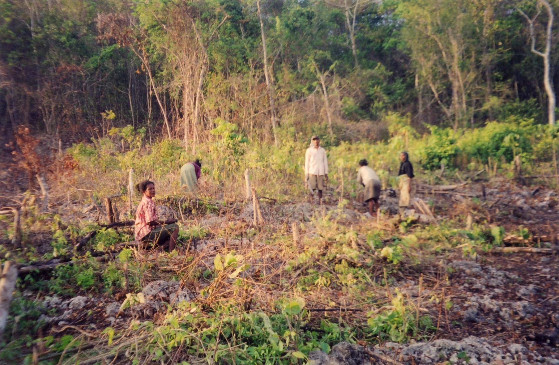 Clearing new garden Mehara